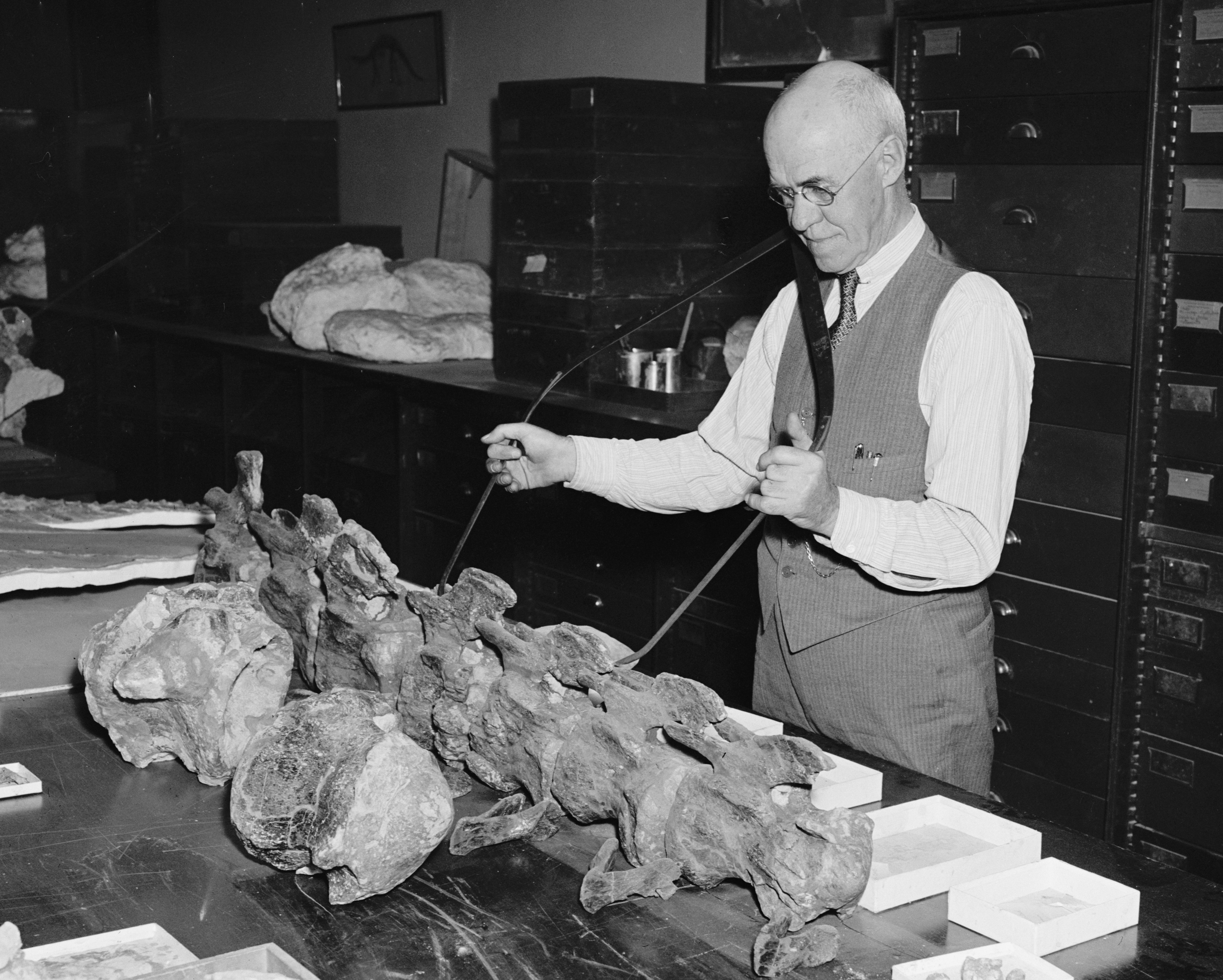 Title: Smithsonian rebuilding gigantic animal. Washington, D.C., March 24. One of the largest animals which ever walked the earth has been discovered and is being rebuilt by the Smithsonian Institution. Dr. Charles Gilmor, Paleontologist, found in western Utah the bones of a Sauropod,-a species of the dinosaurs which ruled the earth 80,000,000 to 150,000,000 years ago. Dr. Gilmore is pictured fitting the 32-foot tail of the monster together, 3/24/38 Abstract/medium: 1 negative : glass ; 4 x 5 in. or smaller